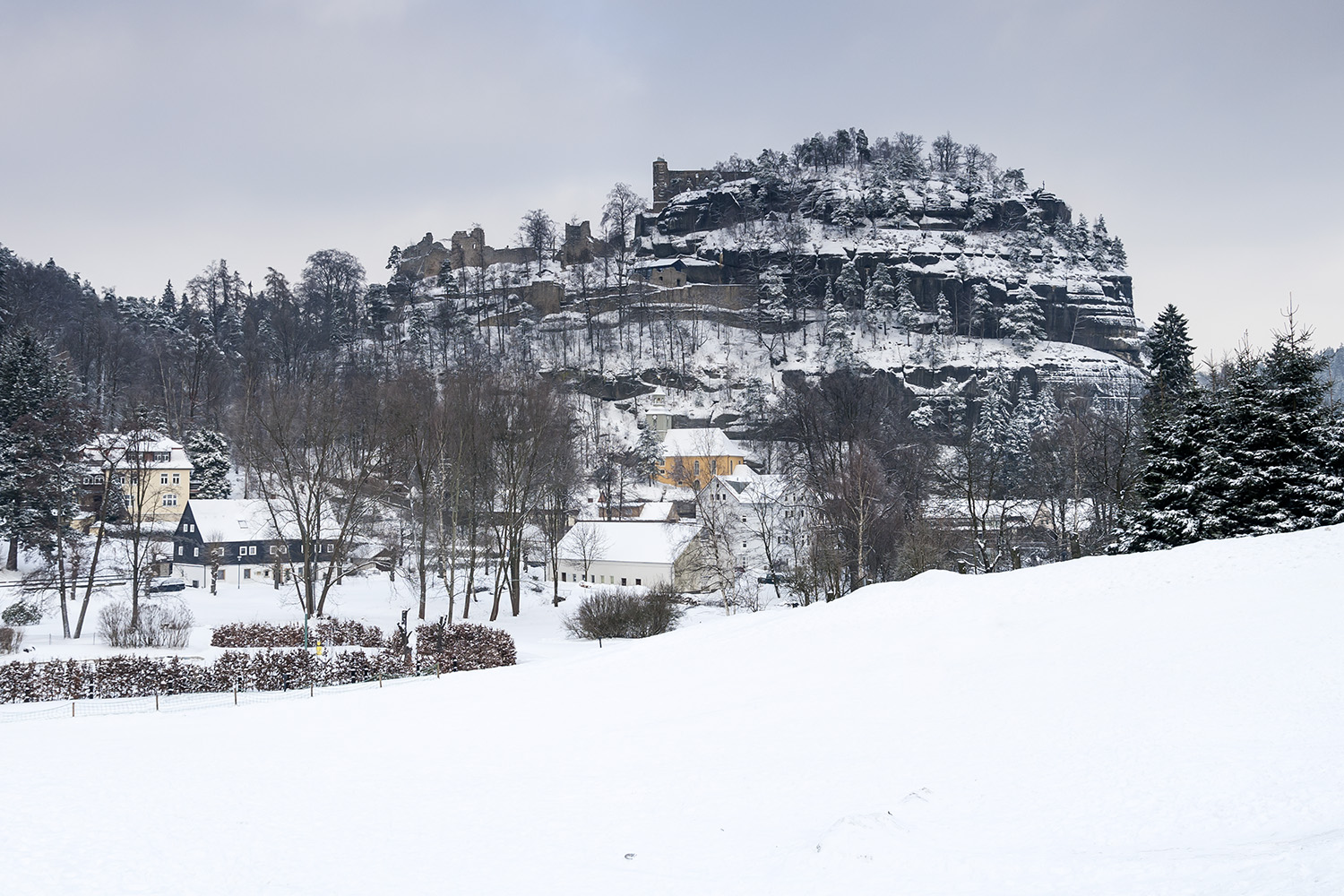 Oybin Mountain 2010